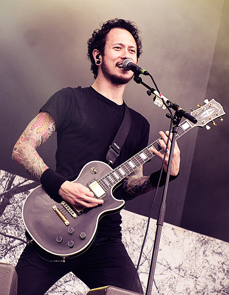 Matt Heafy live at With Full Force Festival 2011